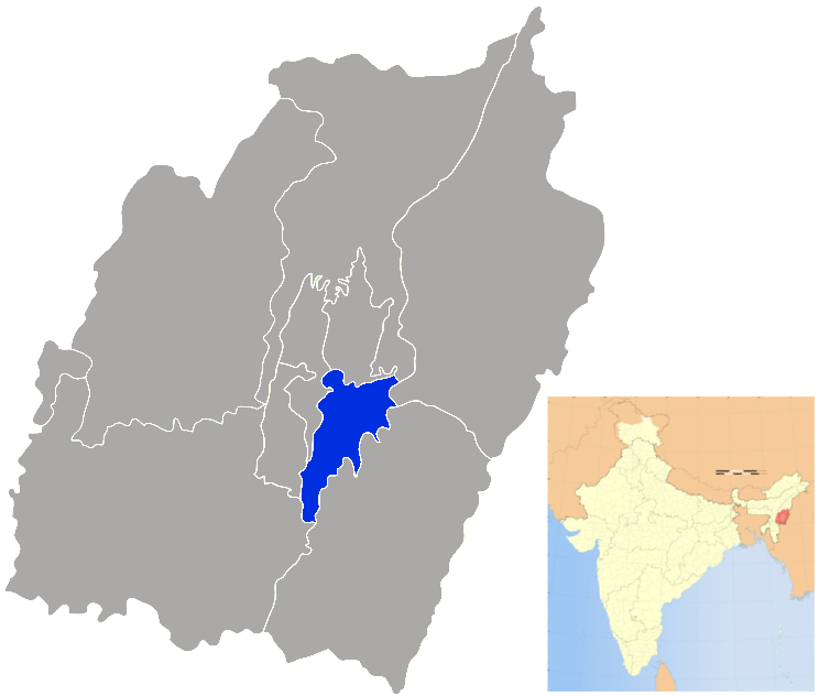 Thoubal district in Manipur